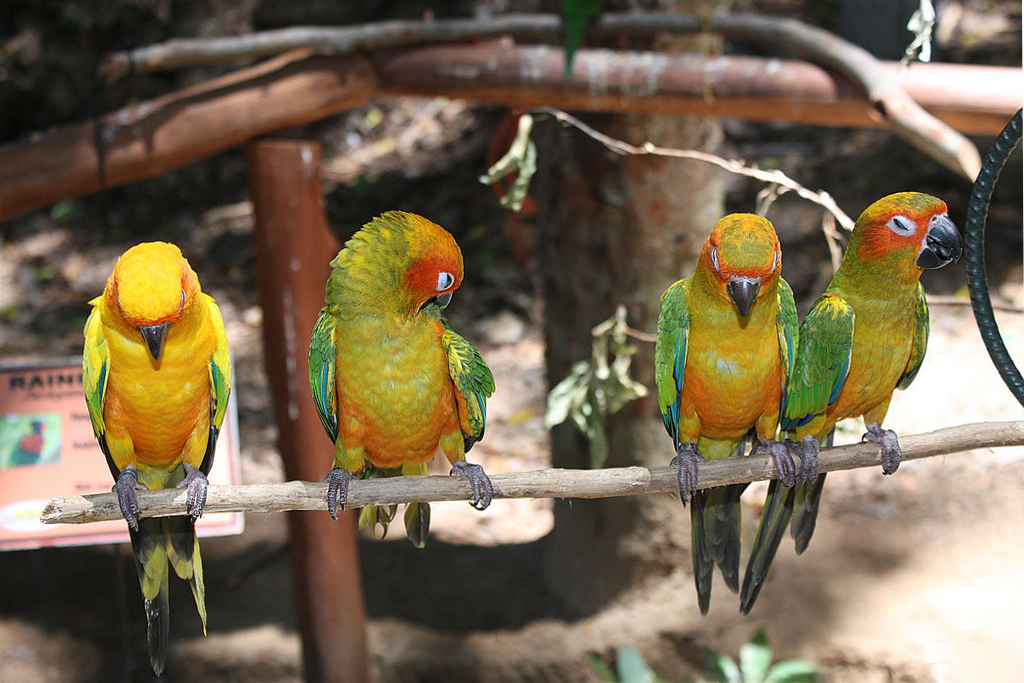 Four Sun Parakeets (also known as Sun Conures) on a perch in captivity. The bright yellow parrot at the end of the perch in an adult and the greener three are juveniles.